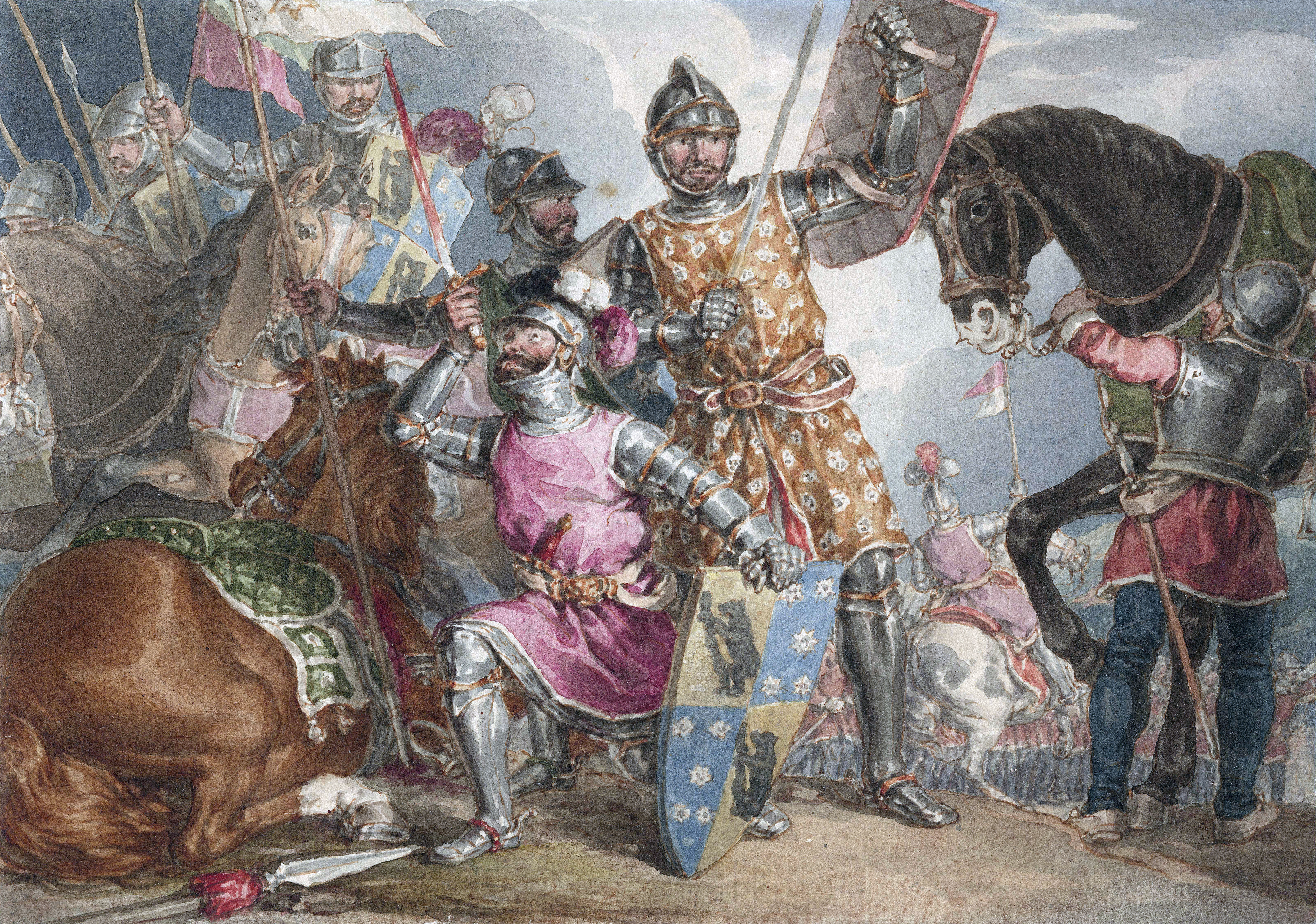 Richard Neville, 16th Earl of Warwick, Edward IV of England, and Richard III of England stand together in William Shakespeare's rendition of the Battle of Towton in Henry VI, Part 3.